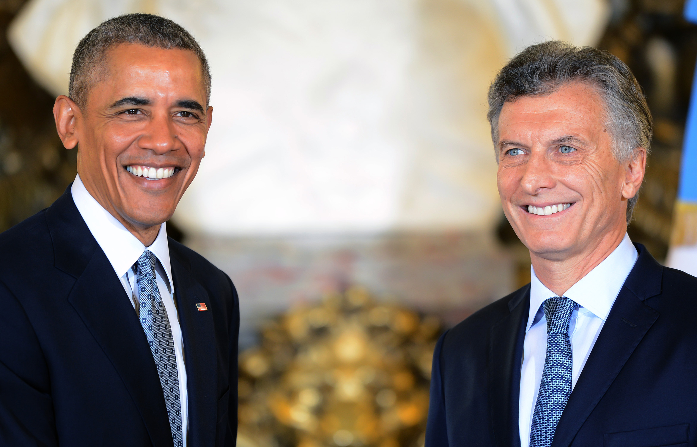 Argentina´s president Mauricio Macri with the president of the United States Barack Obama